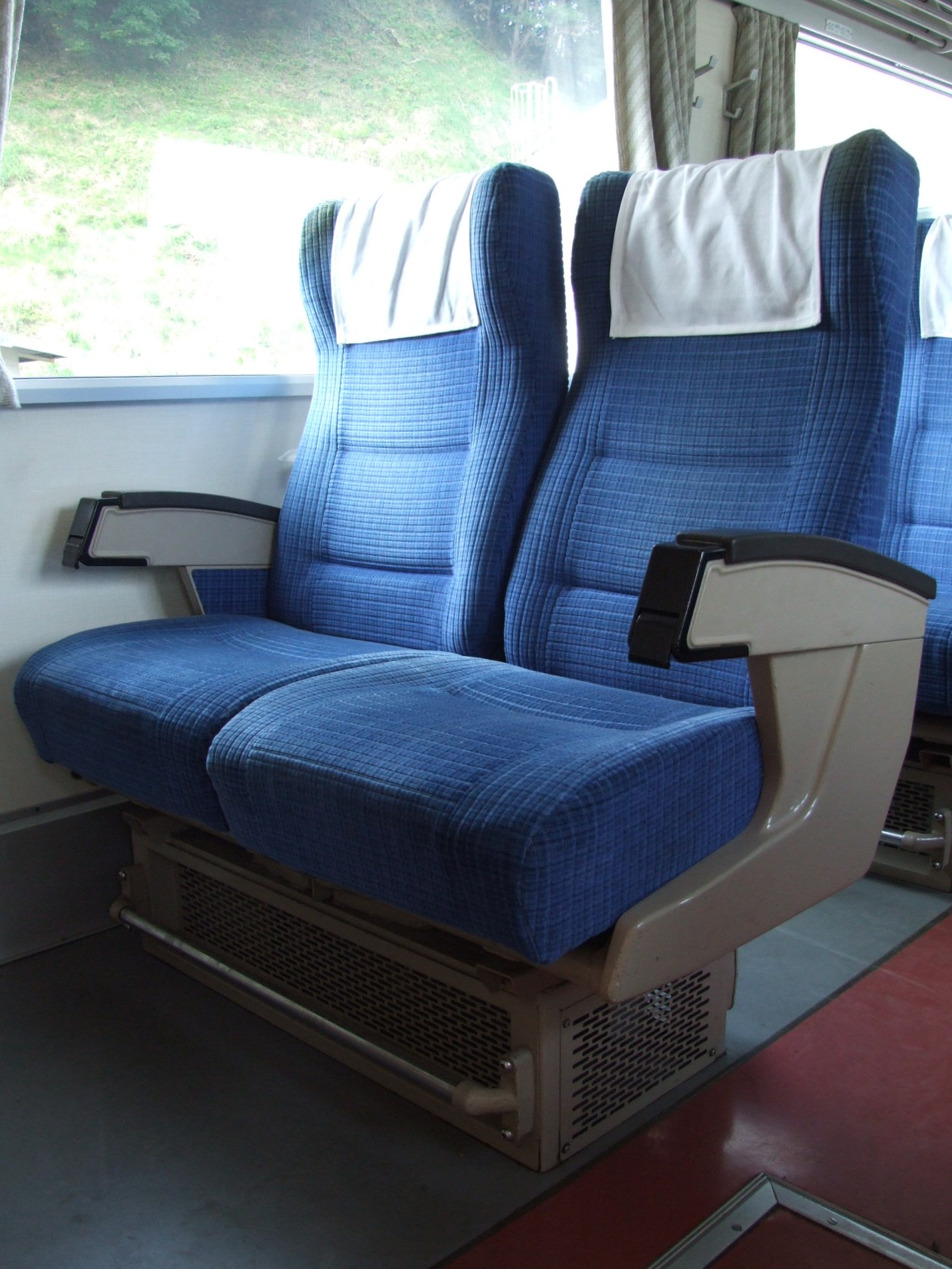 Seat of Series 5000,Seibu Railway,Japan